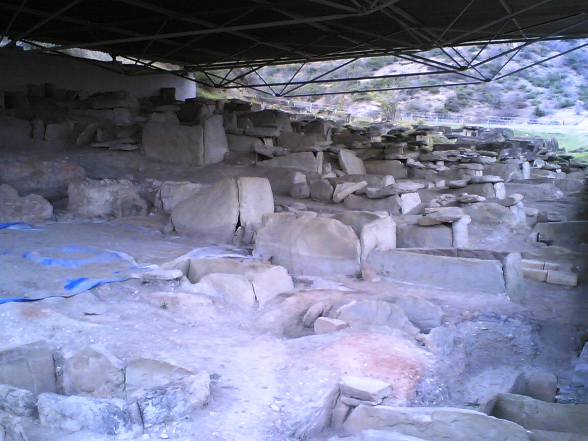 Ancient acropolis of Samtavro, Mtskheta, Georgia